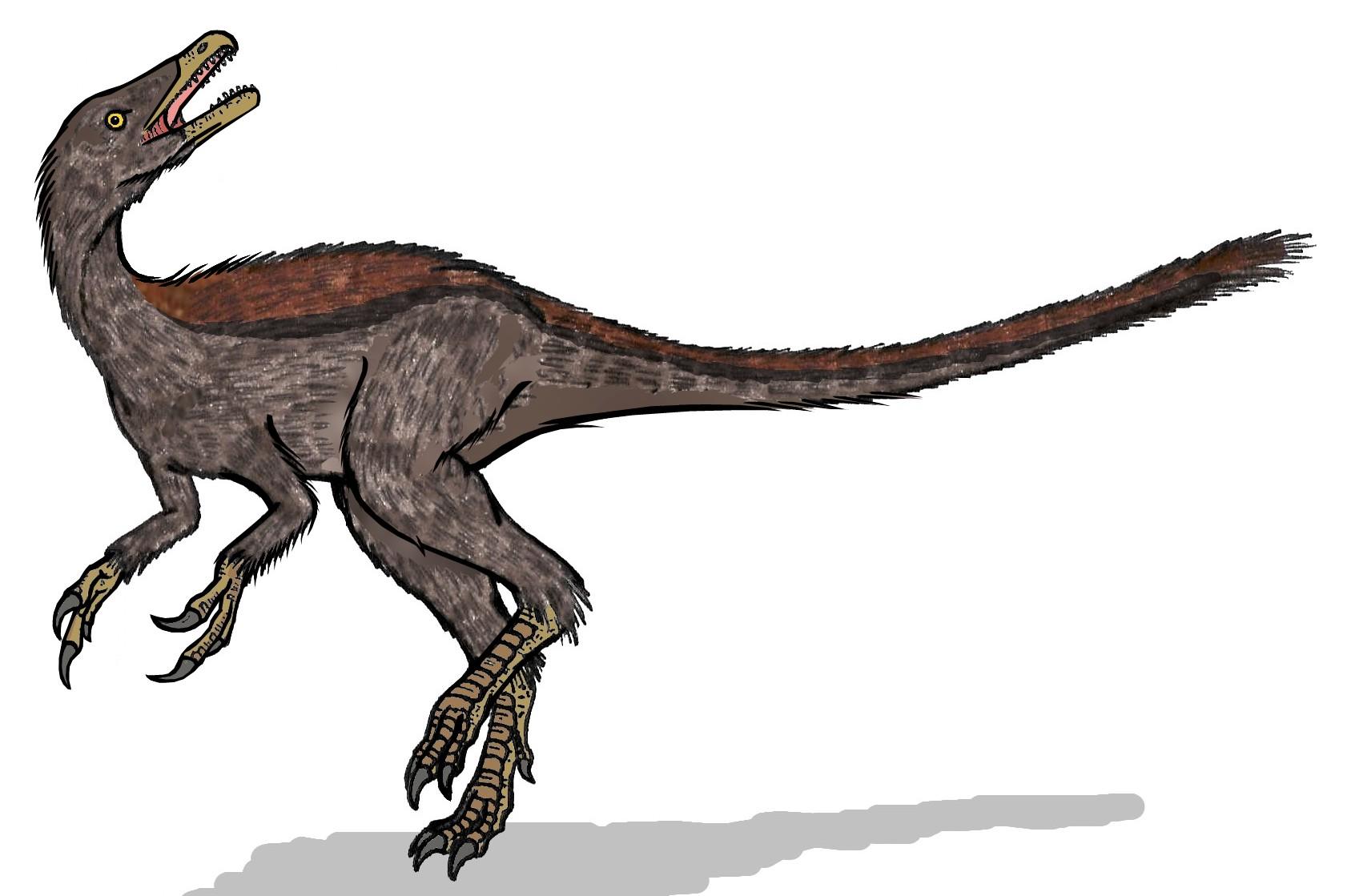 Illustration of Haplocheirus sollers, a basal Alvarezsauroid from the late Jurassic of Asia. Described in 2010. References Skeleton and skull. Haplocheirus skeletal illustration. Haplocheirus fossil and skull. Forelimb elements of Haplocheirus.